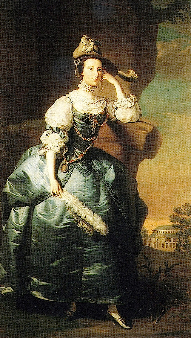 Portrait of Mary Bertie, Duchess of Ancaster and Kesteven (17..-1793), in Van Dyck style costume based on Sir Robert Walpole’s painting entitled Rubens’ Wife. At this time, Rubens’ Wife was the model for numerous costumes worn to masquerades and balls and it is likely that the Duchess is shown dressed for a ball at the Rotunda, Ranelagh Gardens, Chelsea which is shown in the background.